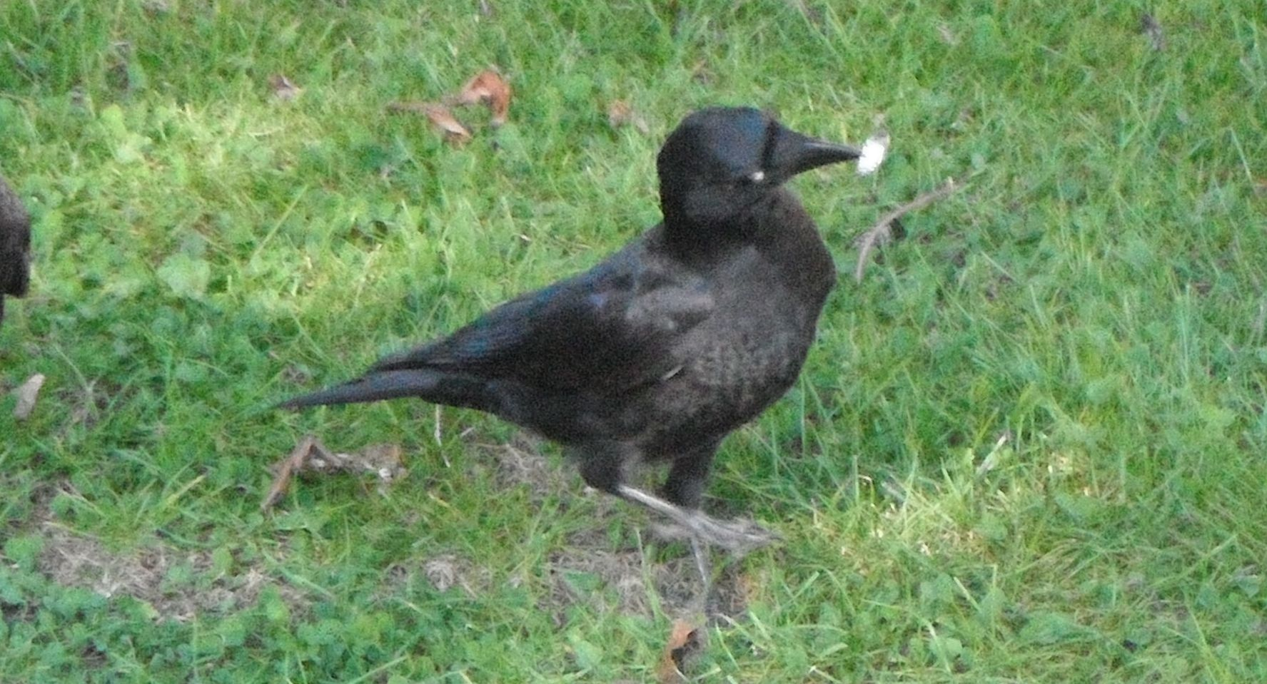 Northwestern Crow Corvus caurinus. Documenting disorders, illness, unusual characteristics.